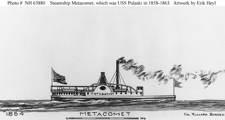 Metacomet steamship. Renamed USS Pulaski when purchased.